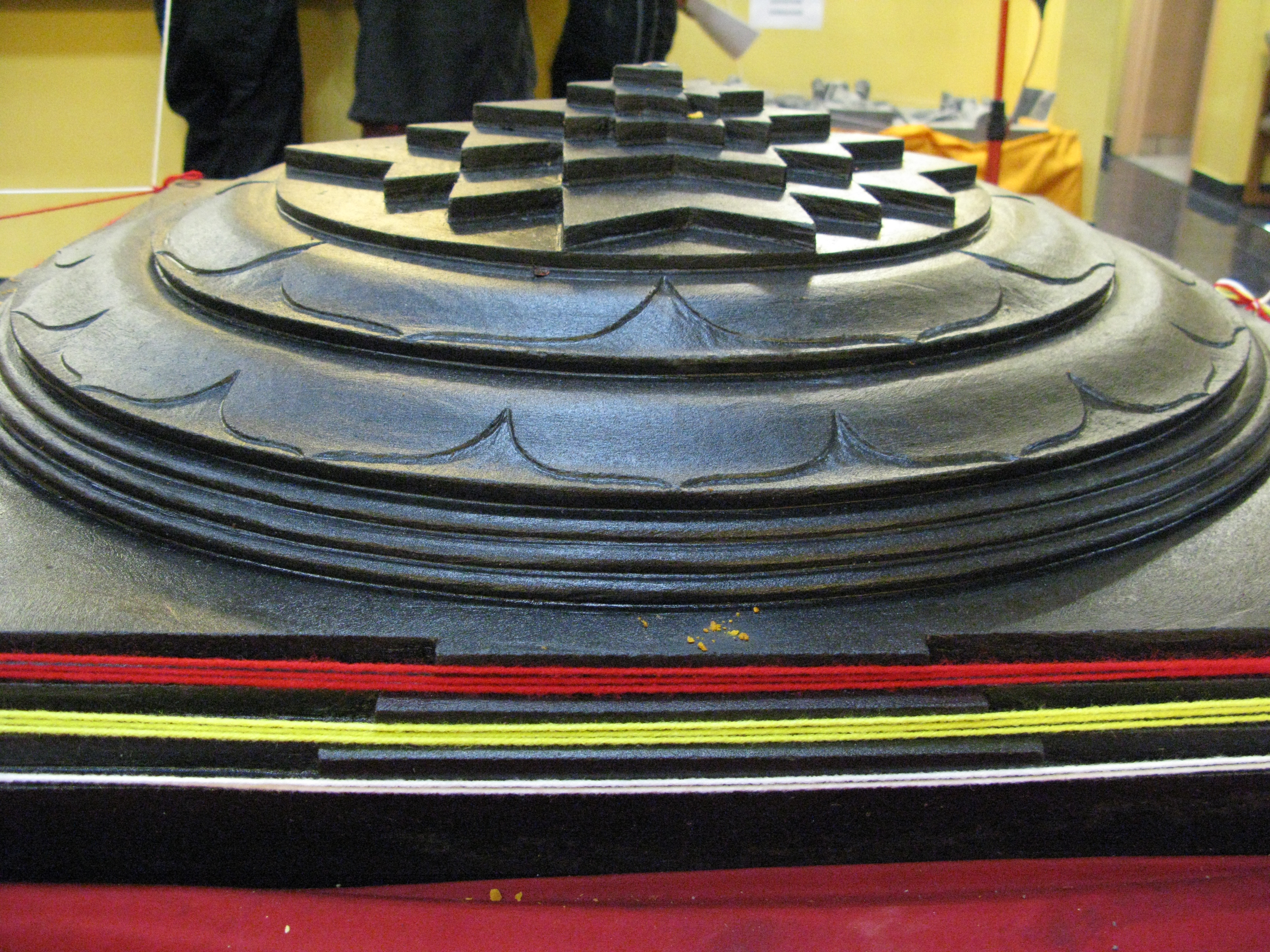 This is the picture taken at Parashakthi Temple during the inauguration of the stone Sri Chakra installation.